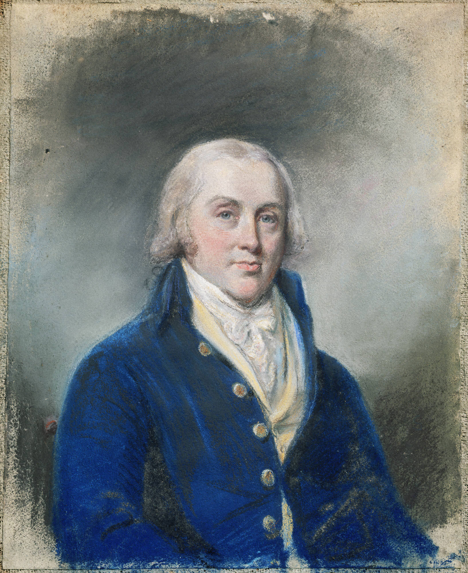 James Sharples, British, 1752–1811 James Madison, Class of 1771 (1751-1836) Pastel on laid (?) paper mounted to canvas 26.5 x 21.4 cm. (10 7/16 x 8 7/16 in.) frame: 36.2 x 31.8 cm. (14 1/4 x 12 1/2 in.) Princeton University, presented in 1916 by a group of alumni PP170